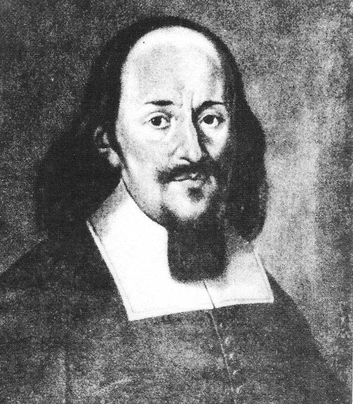 Friedrich Leibnütz (1597–1652), father of Gottfried Wilhelm Lebniz, painting of an unknown painter